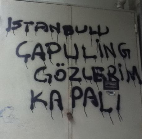 "I am chapuling to Istanbul with my eyes closed" (a reference to the poem of Orhan Veli)